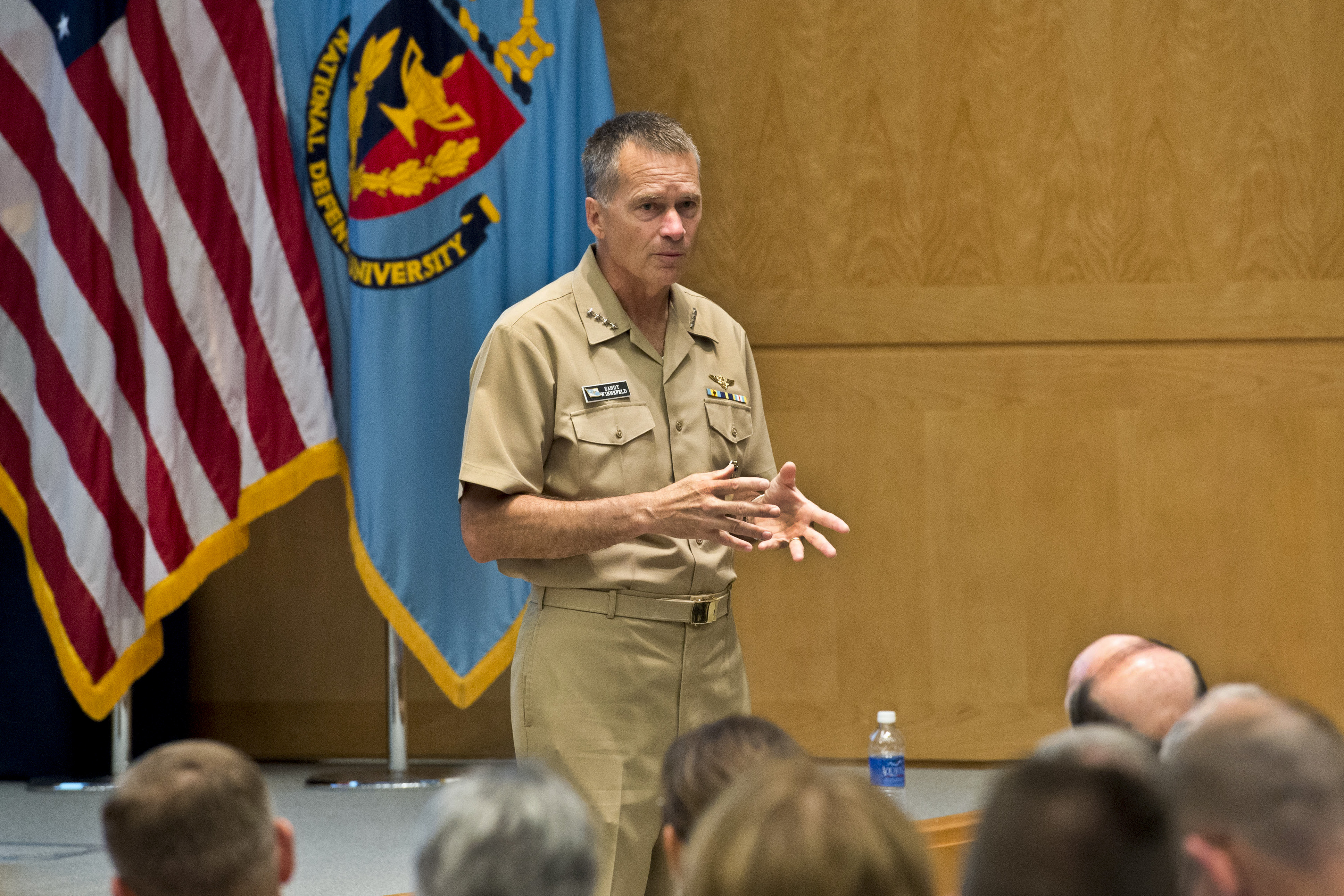 Navy Adm. James A. Winnefeld Jr., vice chairman of the Joint Chiefs of Staff, speaks to students and spouses attending a Capstone course at the National Defense University on Fort McNair in Washington, D.C., Aug. 15, 2014. The objective of the six-week course for senior defense leaders is to improve their effectiveness in planning and employing U.S. forces in joint and combined operations. The course is mandatory for senior officers in the U.S. military.